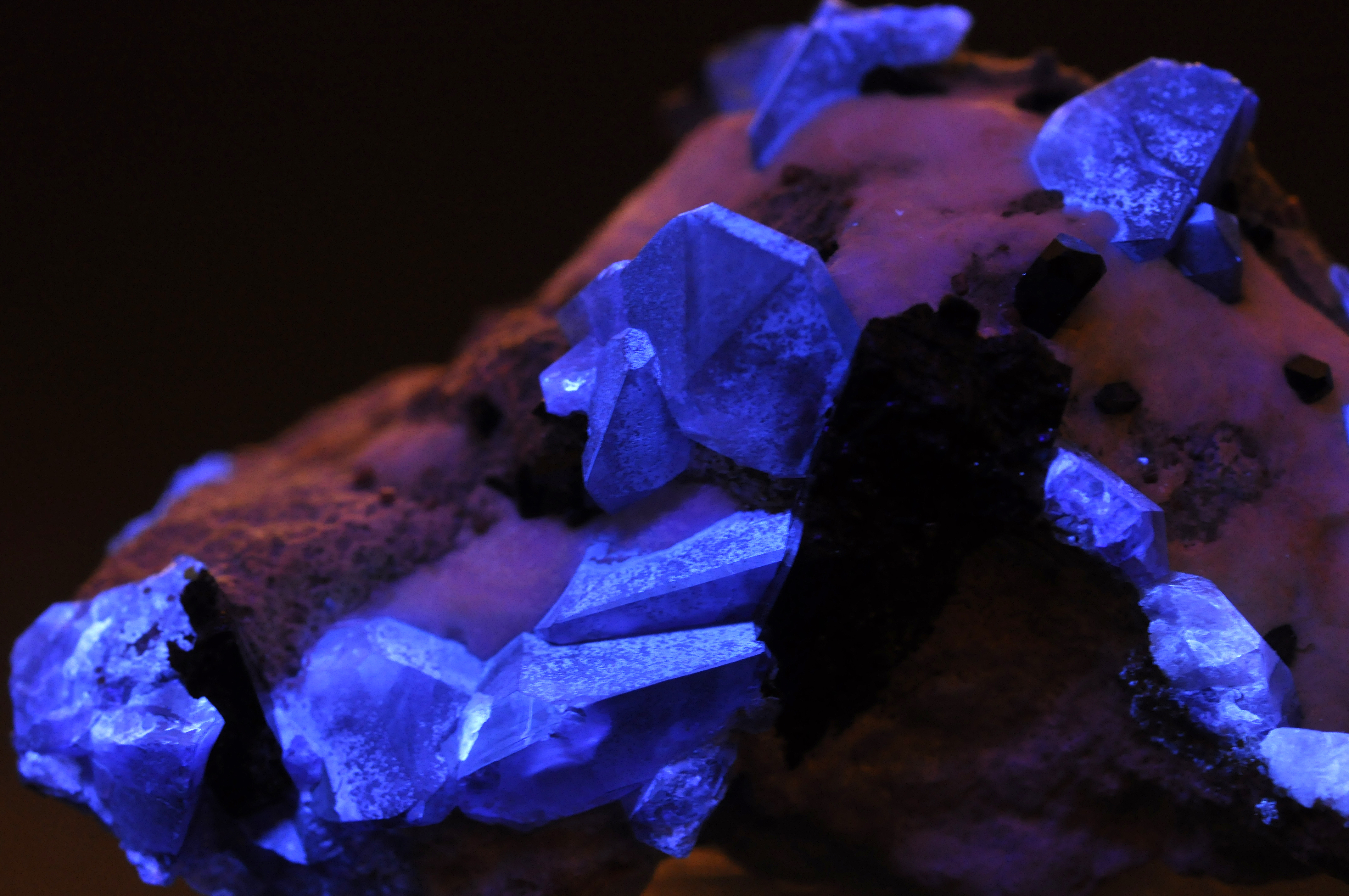 benitoite, neptunite, UVL : Dallas Gem Mine (Benitoite Mine ; Benitoite Gem Mine ; Gem Mine), Dallas Gem Mine area, San Benito River headwaters area, New Idria District, Diablo Range, San Benito Co., California, USA (Locality at ).